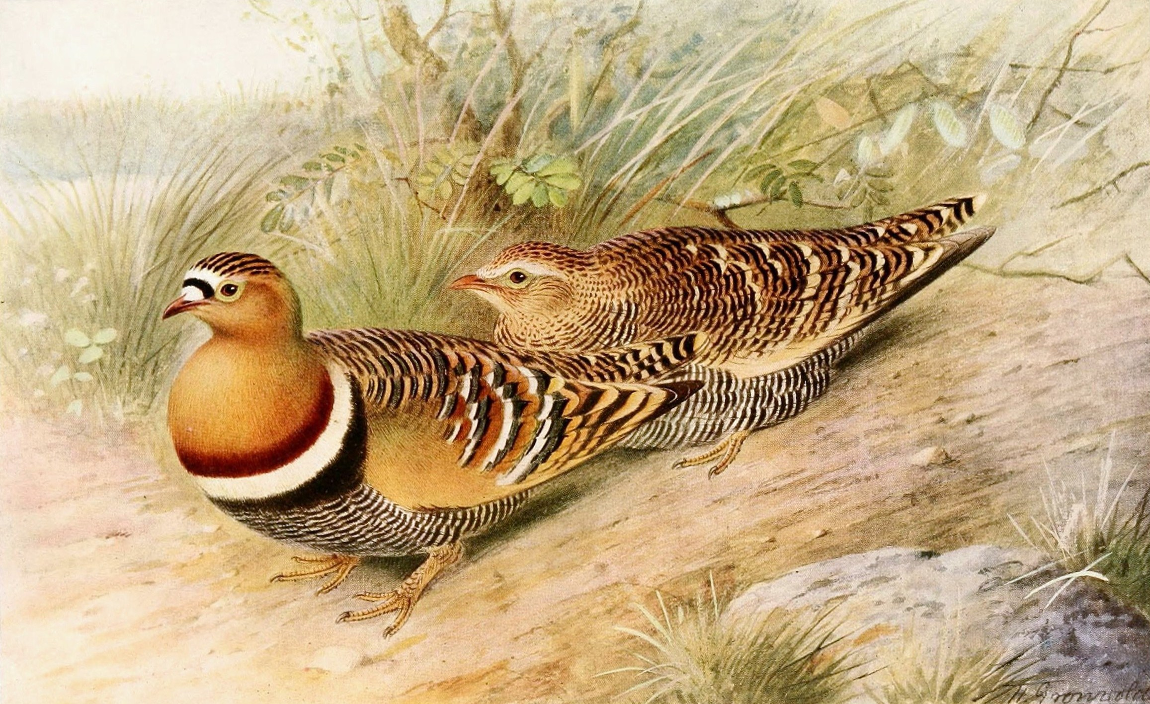 The Painted Sand-grouse Pterocles indicus = Pterocles indicus (Painted Sandgrouse)